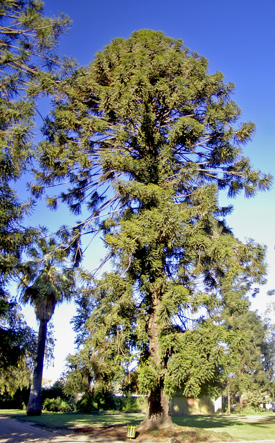 Bunya Pine (Araucaria bidwillii) over 100 years old[1]. Collins Park, Wagga Wagga